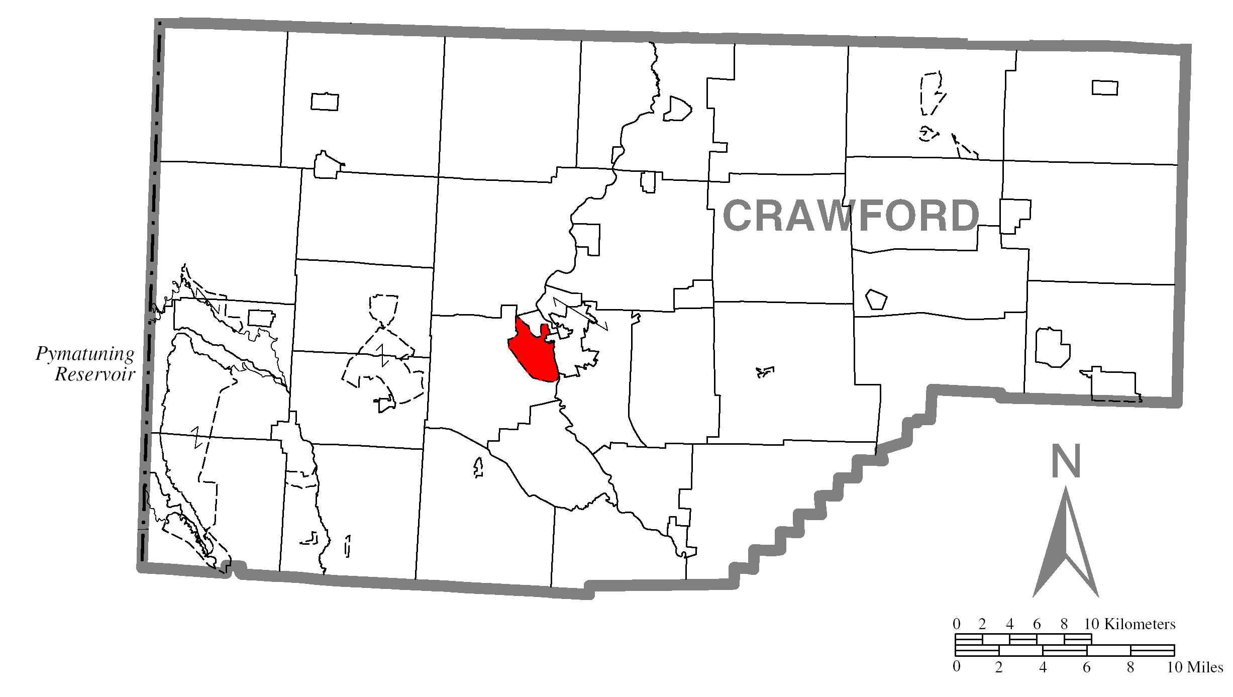 Map of Crawford County higlighting Fredericksburg.